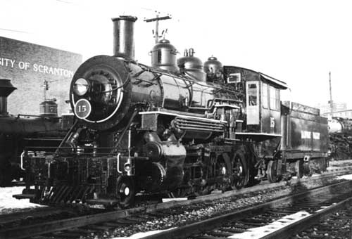 Rahway Valley Railroad locomotive number 15